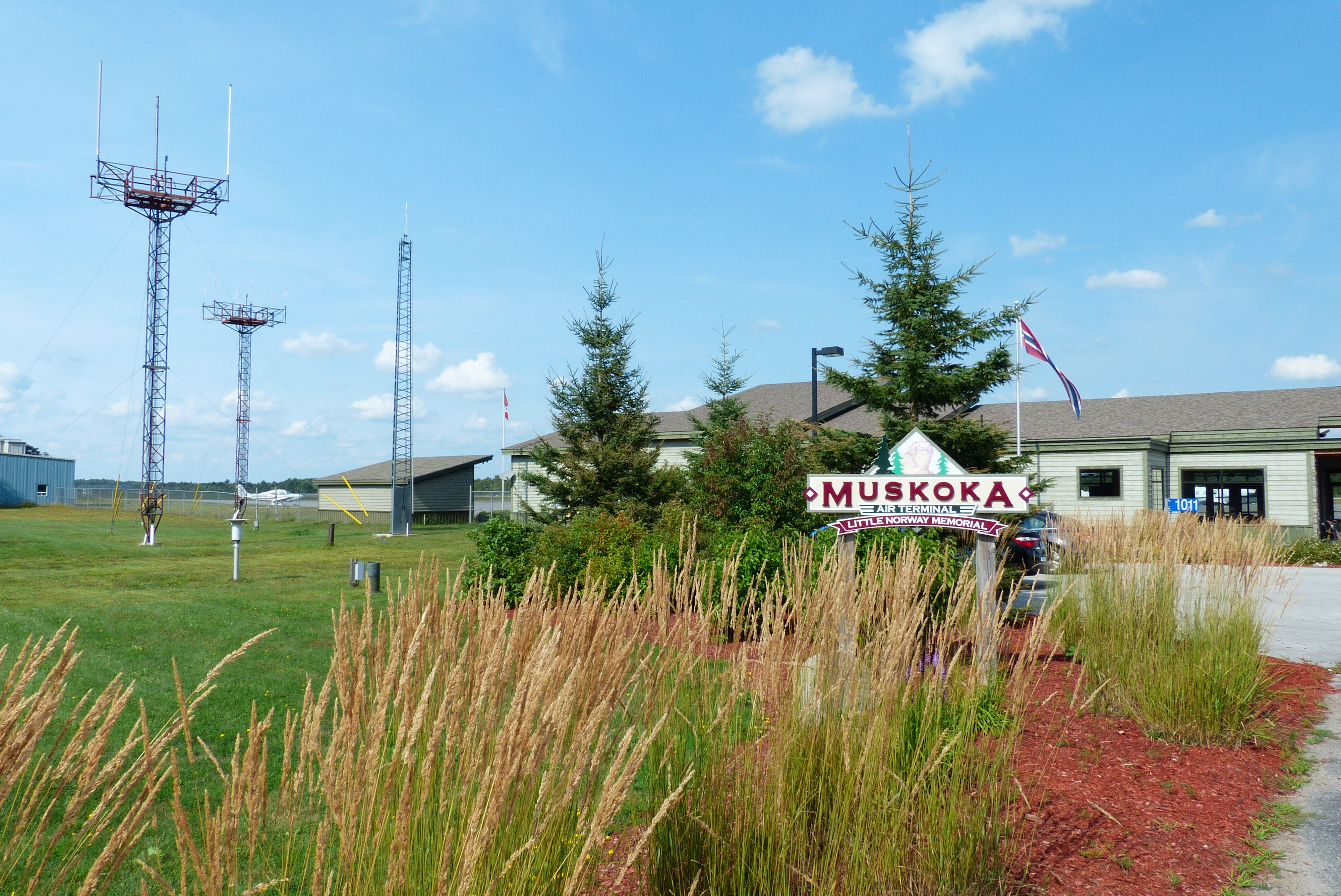 The terminal building at Muskoka Airport in Ontario, Canada. The Norwegian Flag is seen at the right of the frame. The Royal Norwegian Air Force used this airfield for their "Little Norway" training base in World War II.